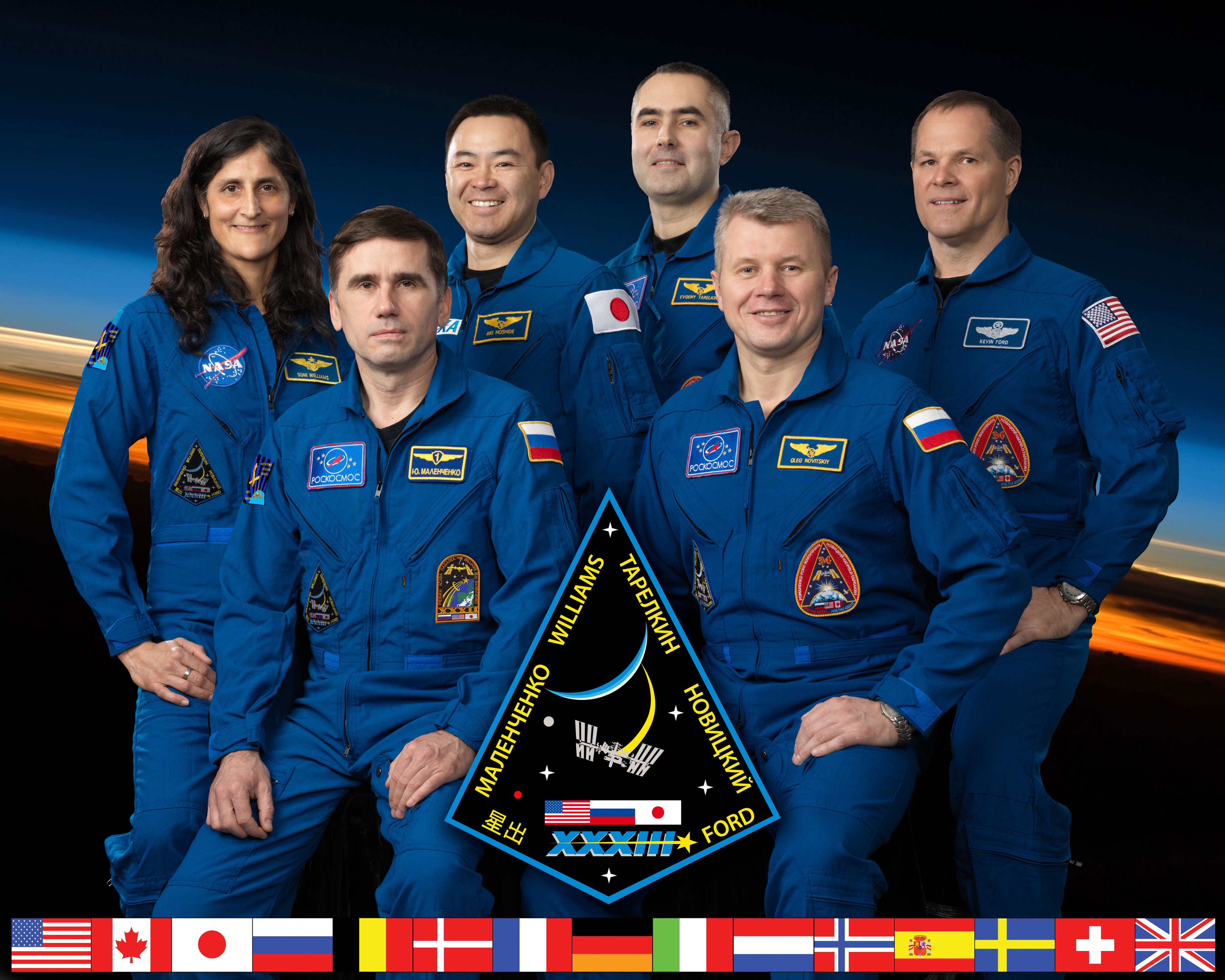 Expedition 33 crew members take a break from training at NASA's Johnson Space Center to pose for a crew portrait. Pictured from the left are NASA astronaut Sunita Williams, commander; along with Russian cosmonaut Yuri Malenchenko, Japan Aerospace Exploration Agency (JAXA) astronaut Akihiko Hoshide, Russian cosmonaut Evgeny Tarelkin, Russian cosmonaut Oleg Novitskiy and NASA astronaut Kevin Ford, all flight engineers.